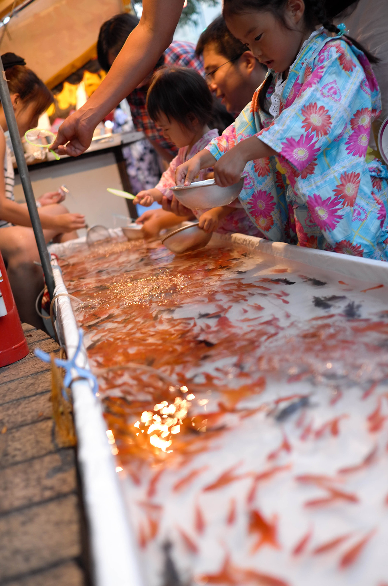 500px provided description: Goldfish Scooping 金魚すくい [#japan ,#tokyo ,#festival ,#matsuri ,#goldfish ,#? ,#Leica ,#????? ,#goldfish-scooping]